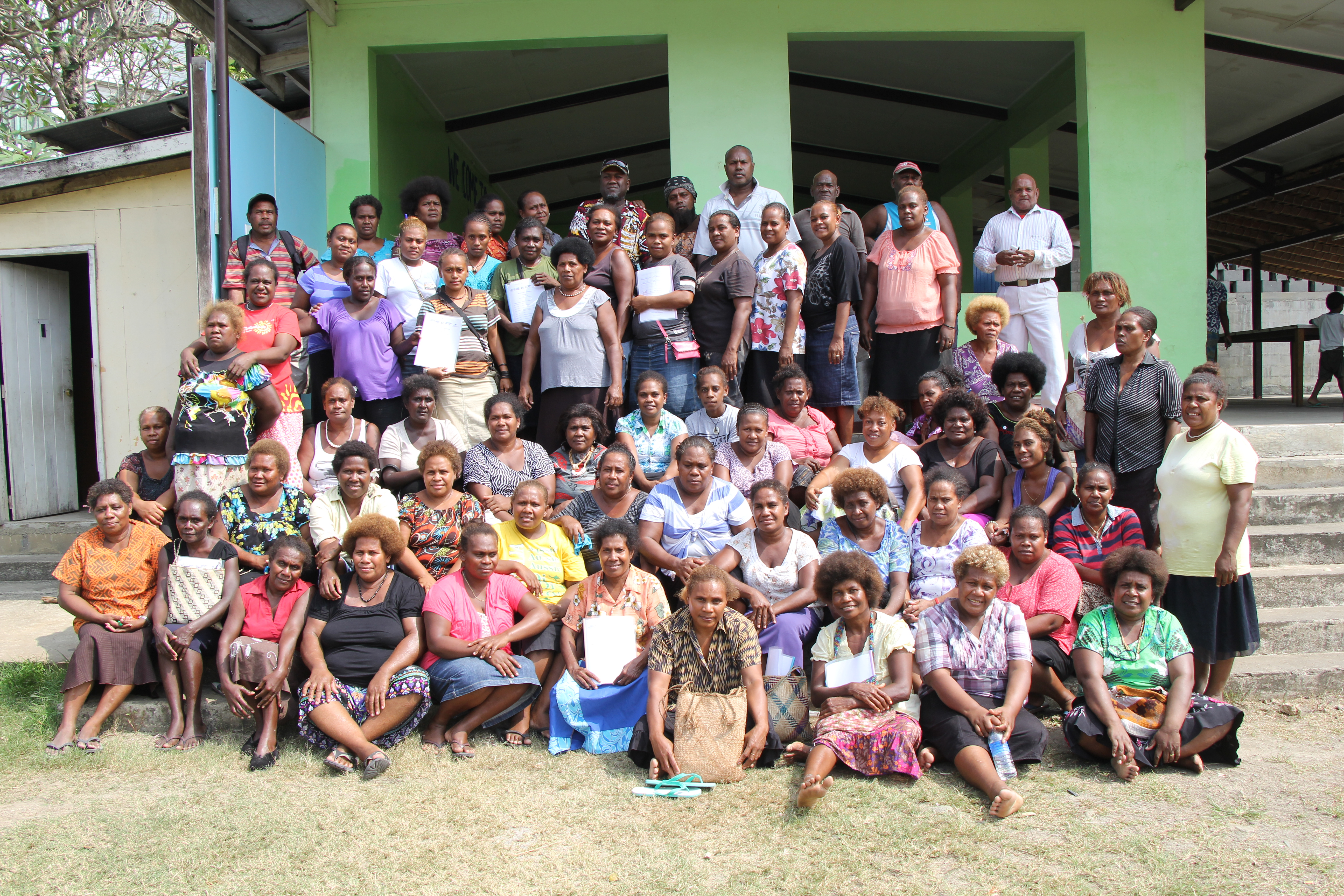 Vendors of Honiara Central Market in a group picture during day three of a workshop entitled 'Getting Started', held in 2014, as part of initial workshops series by UN Women's Markets for Change (M4C) project, which formed the Honiara Central Market Vendors’ Association.